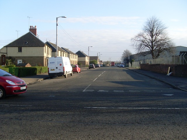 Duchess Road Residential street, leading to industrial premises, in the Rutherglen area.